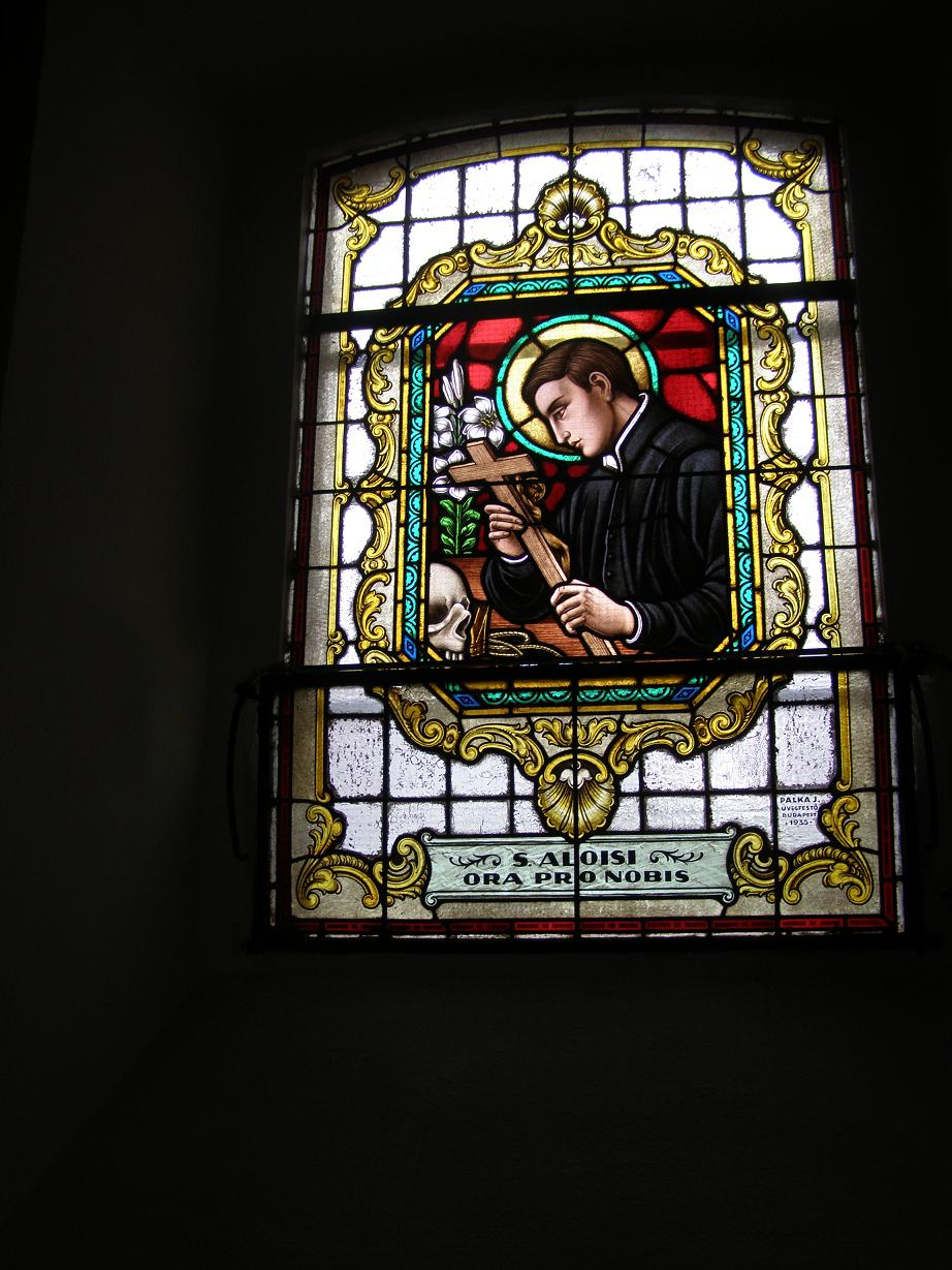 The mosaic of St. Alois in the Church of Alsószölnök